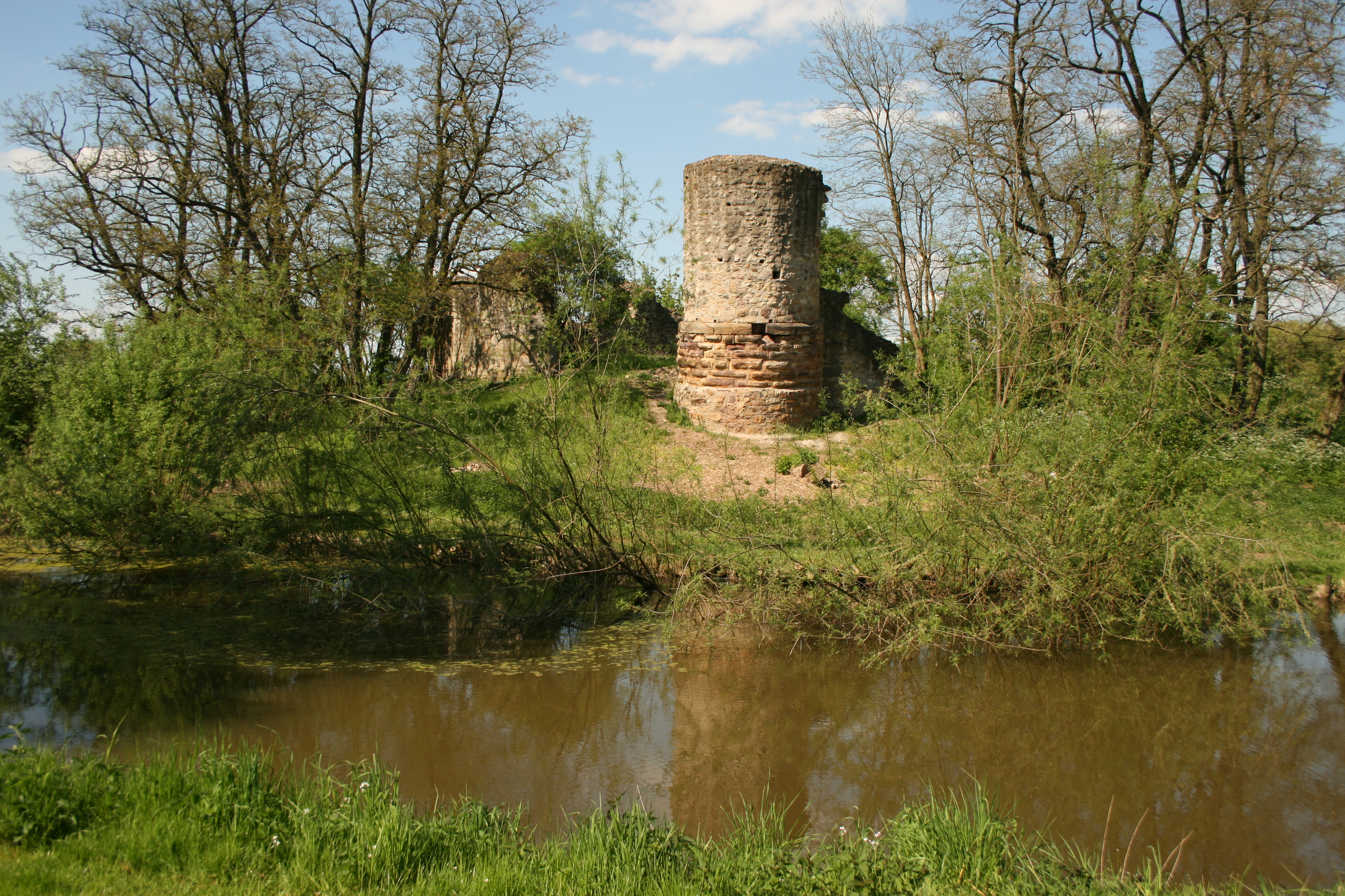 Ruins of castle Dorfelden, Niederdorfelden, Hesse. View from South